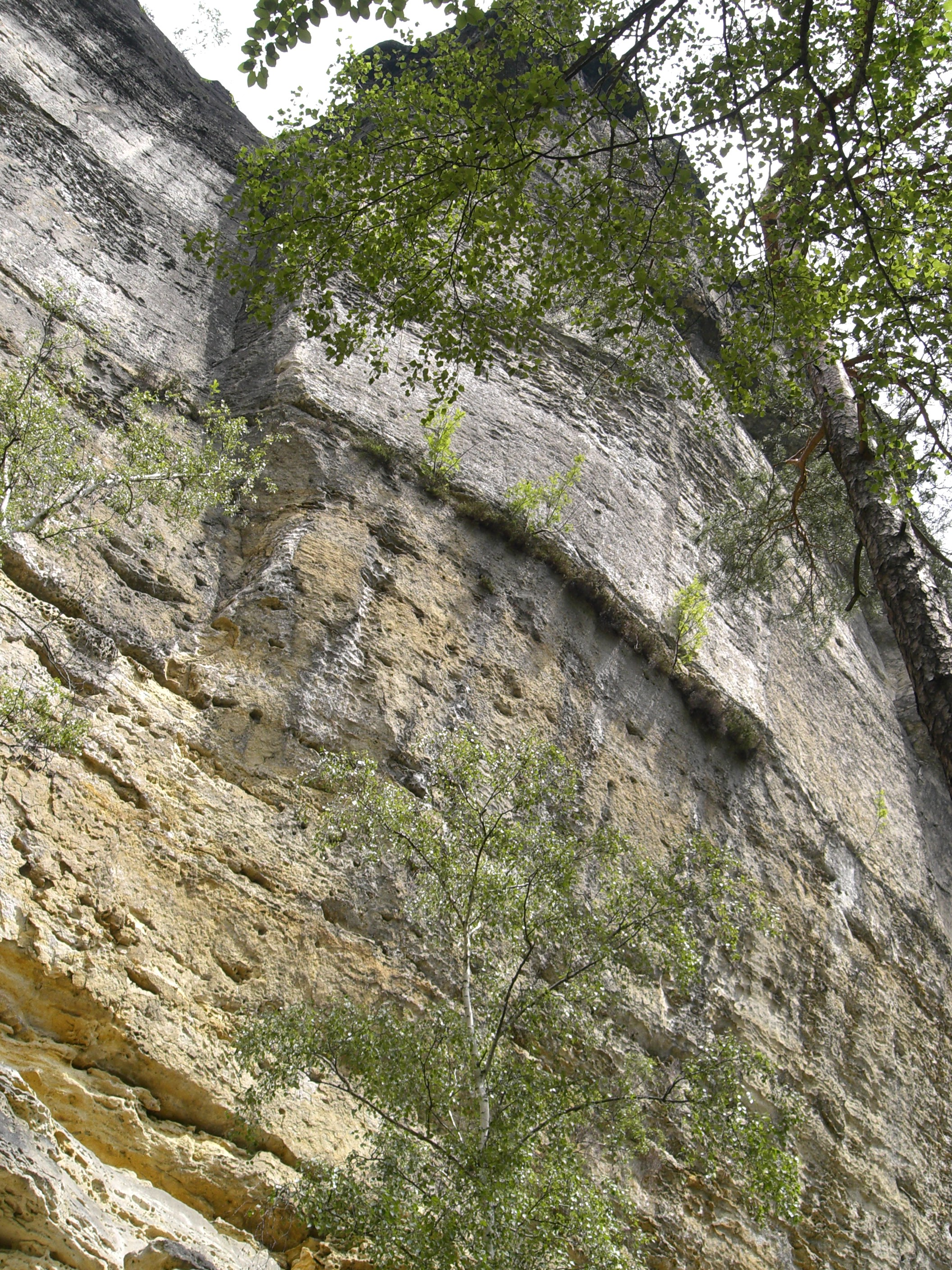 The National park České Švýcarsko, Czech Republic.